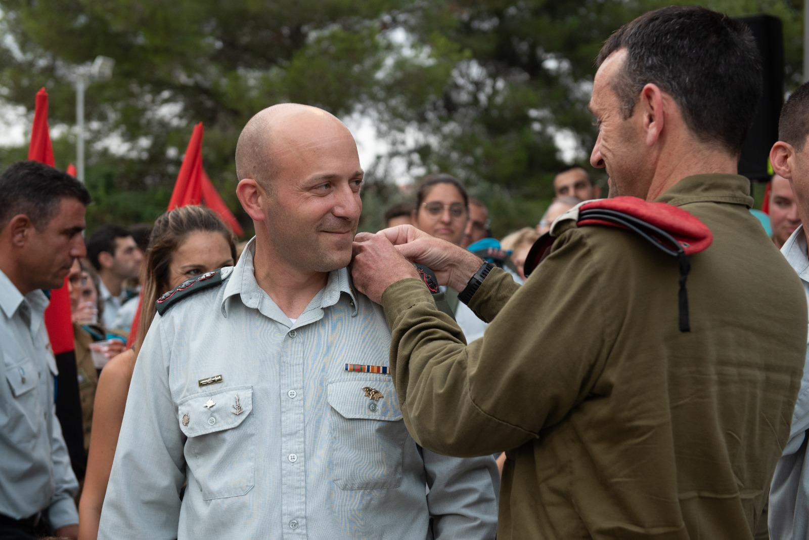 Colonel Gadi Dror entering the position of 215th Artillery Regiment's commander